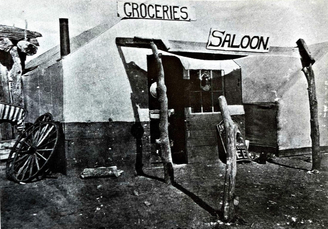 In 1906 in Palmetto, Nevada, tent business. The businesses were easy and quick to construct and when the town declined, the commercial buildings could be moved easily to another camp.